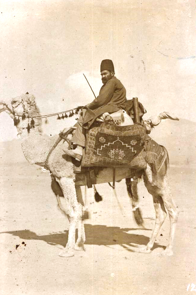 An Iranian photographer in Qajar era, c. 1902